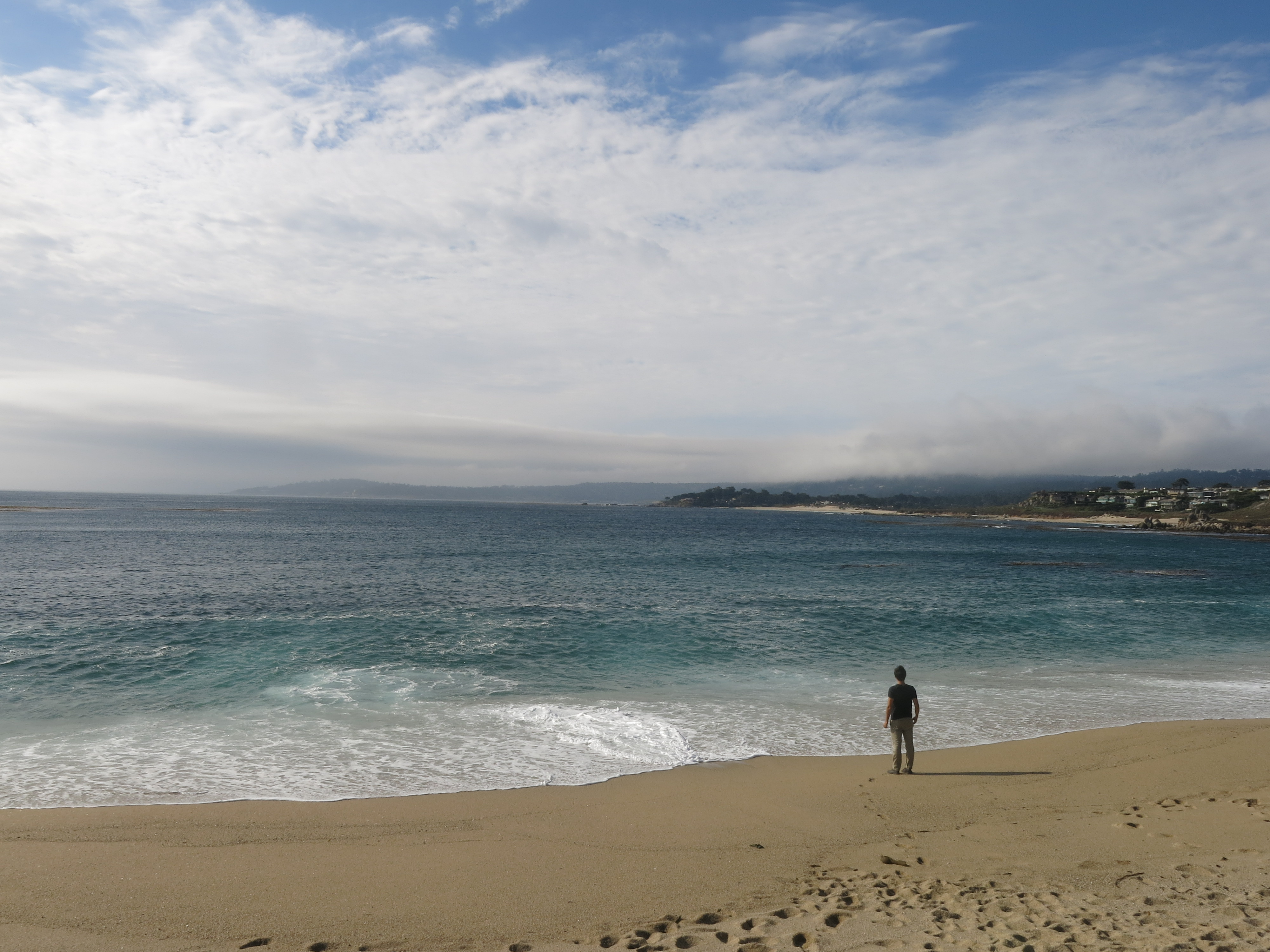 Carmel River State Beach in California.